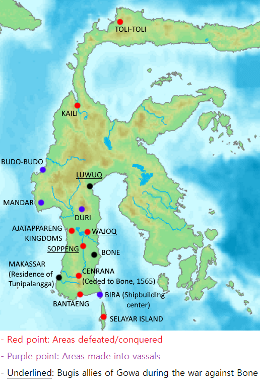 The conquests of I Mariogauq I Daeng Bonto Karaeng Lakiung Tunipalangga (r. ca. 1546-1565) of Gowa. Made with DEMIS World Map Server as background, data principally from F. David Bulbeck's "Tale of Two Kingdoms: The Historical Archaeology of Gowa and Tallok" This image is in the public domain because it came from the site and was released by the copyright holder. Permission is granted to copy, distribute and/or modify this map since it is based on free of copyright images from: See also approval email on de.wp and its clarification. This work has been released into the public domain by its author, This applies worldwide.In some countries this may not be legally possible; if so: grants anyone the right to use this work for any purpose, without any conditions, unless such conditions are required by law.